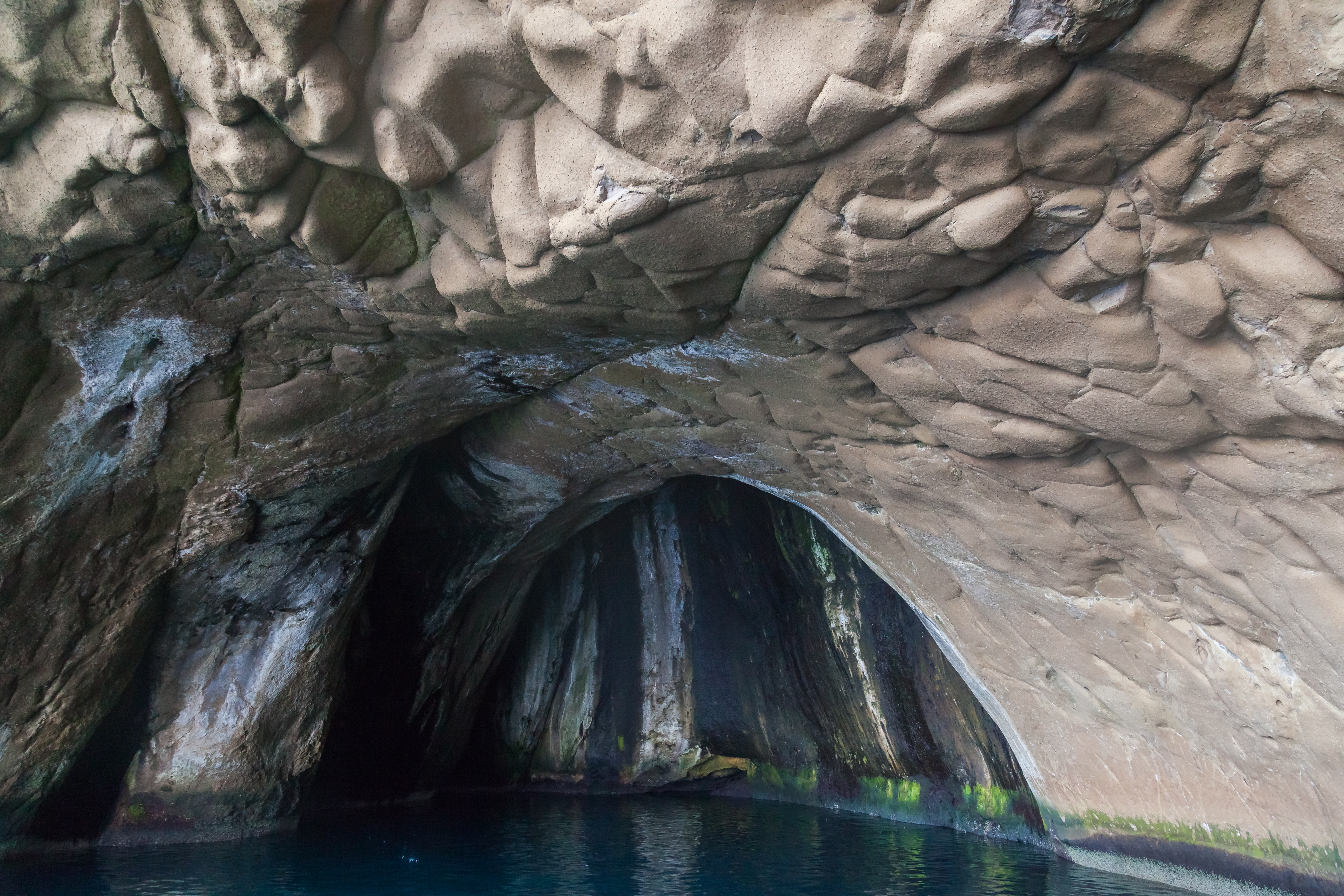 Cave in the cliffs of Heimaey, Westman Islands, Suðurland, Iceland